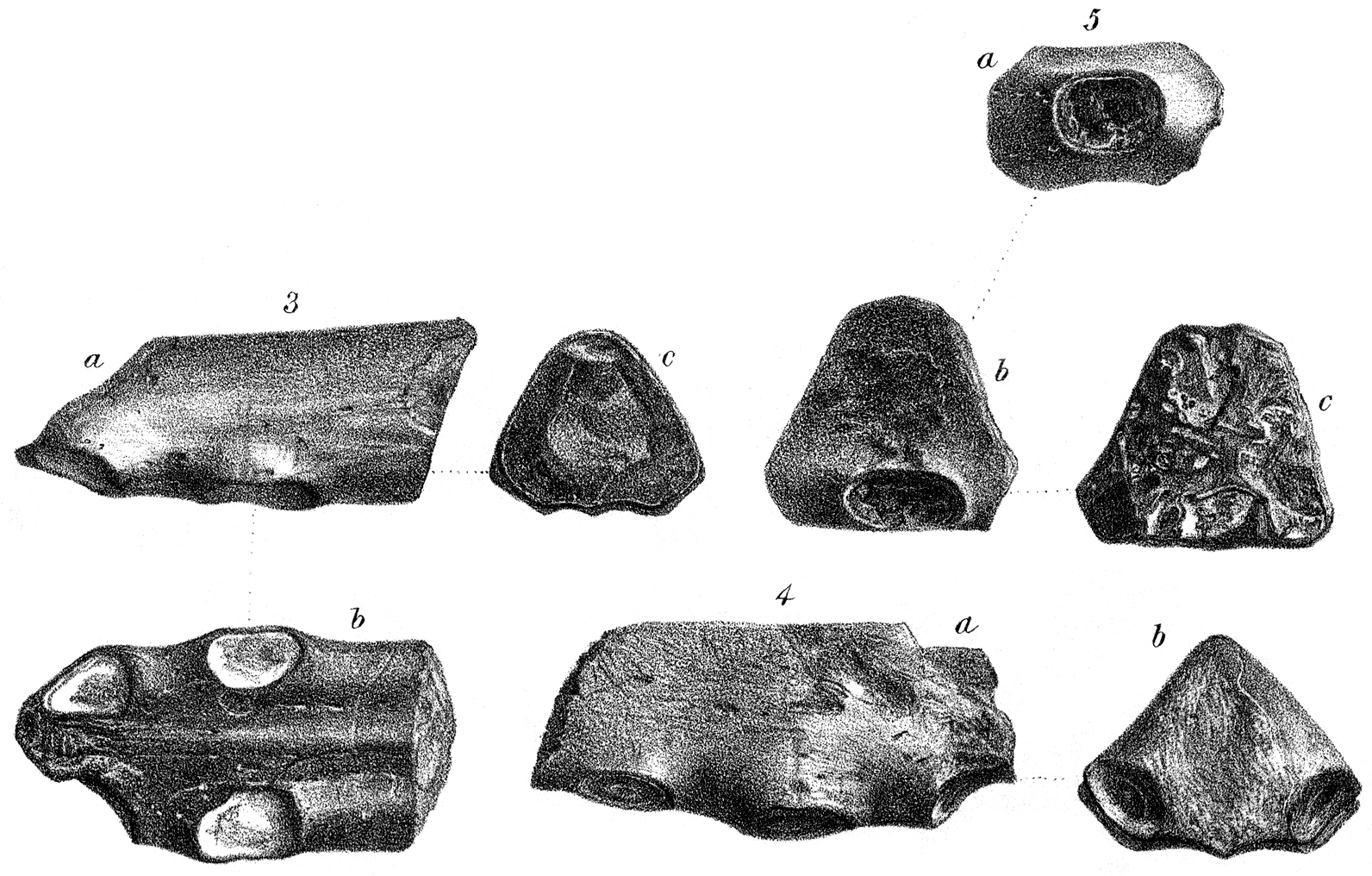 Fig. 3. Fore part of the upper jaw of Pterodactylus (now Anhanguera or Ornithocheirus) Fittoni: a, side view; b, under view; c, section of fractured end. Fig. 4. Another portion of the upper jaw of Pterodactylus Fittoni: a, side view; b, section. Fig. 5. A fragment of the upper jaw with one socket of Pterodactylus Fittoni: a, under view; b, outside view; c, inside view, showing the large cancelli. All the foregoing figures are of the natural size, and from specimens in the Woodwardian Museum of the University of Cambridge (with the exception of fig. 7 in the Private Collection of the Rev. G. D. Liveing, M.A., of St. John's College, Cambridge); they were obtained from the Upper Green-sand (Neocomian), near that town.